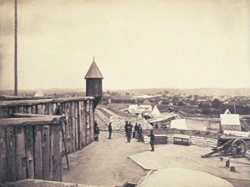 Photograph of Fort Negley in Nashville, Tennessee from 1864 by George Barnard.